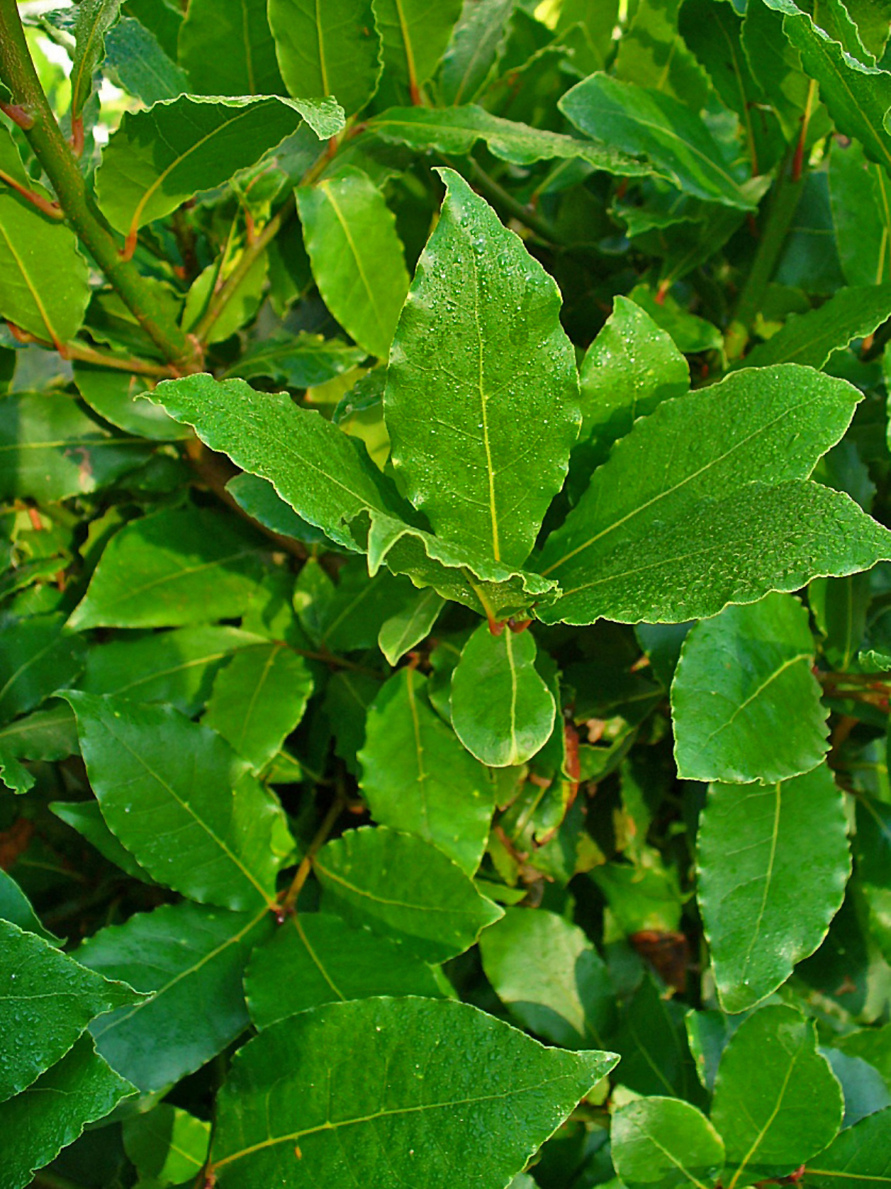 Laurus nobilis, Lauraceae, Bay Laurel, True Laurel, Sweet Bay, Laurel Tree, Grecian Laurel, Laurel, Bay Tree, leaves. The fresh leaves are used in homeopathy as remedy: Laurus nobilis (Laur-n.)